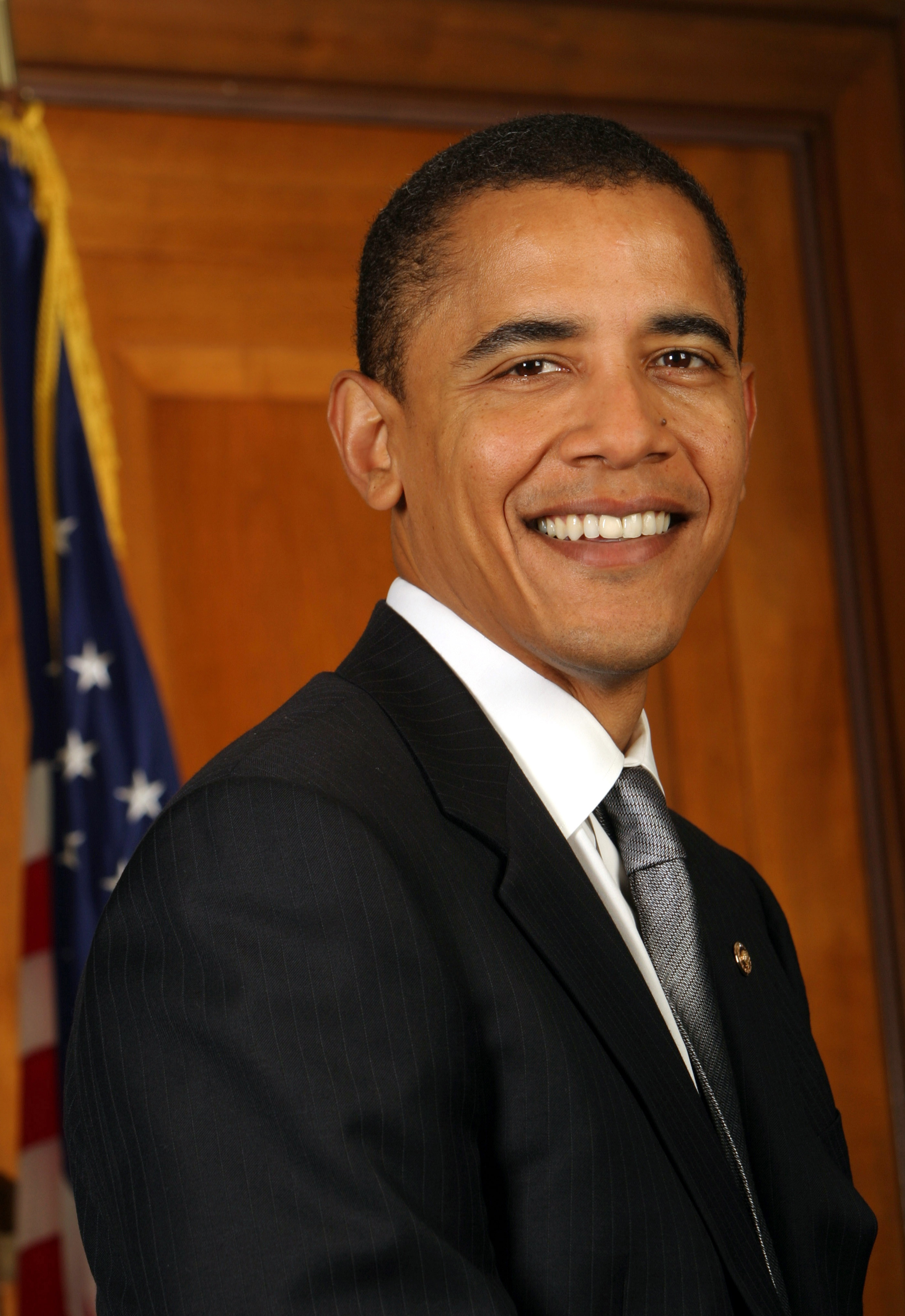 Official Senate photo of Barack Obama (D-IL)